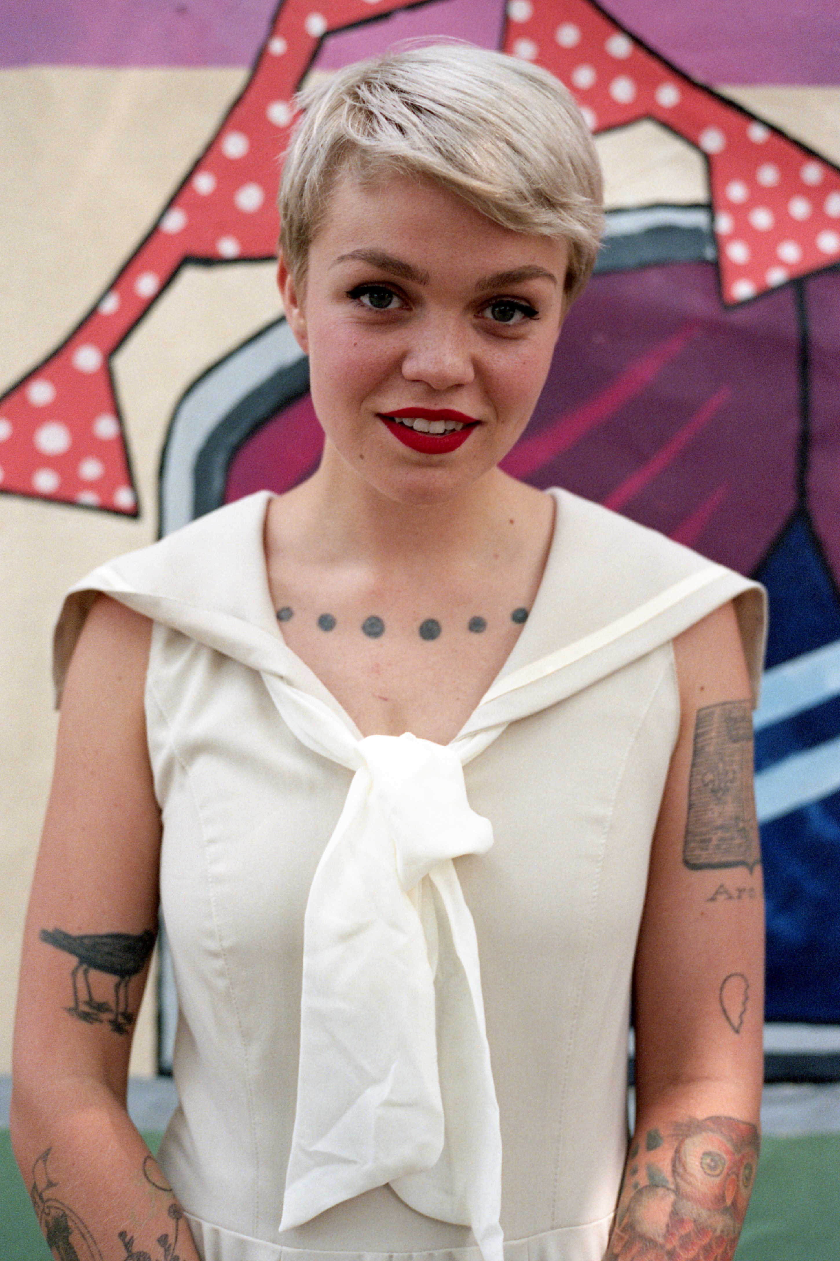 Meredith Graves at Pitchfork Music Festival 2014 by Jaime Salazar